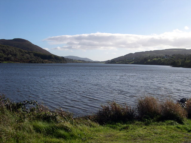 Cam Lough Glacial ribbon lake. The Ring of Gullion ring dyke is offset at this point due to a fault line running through the lake.